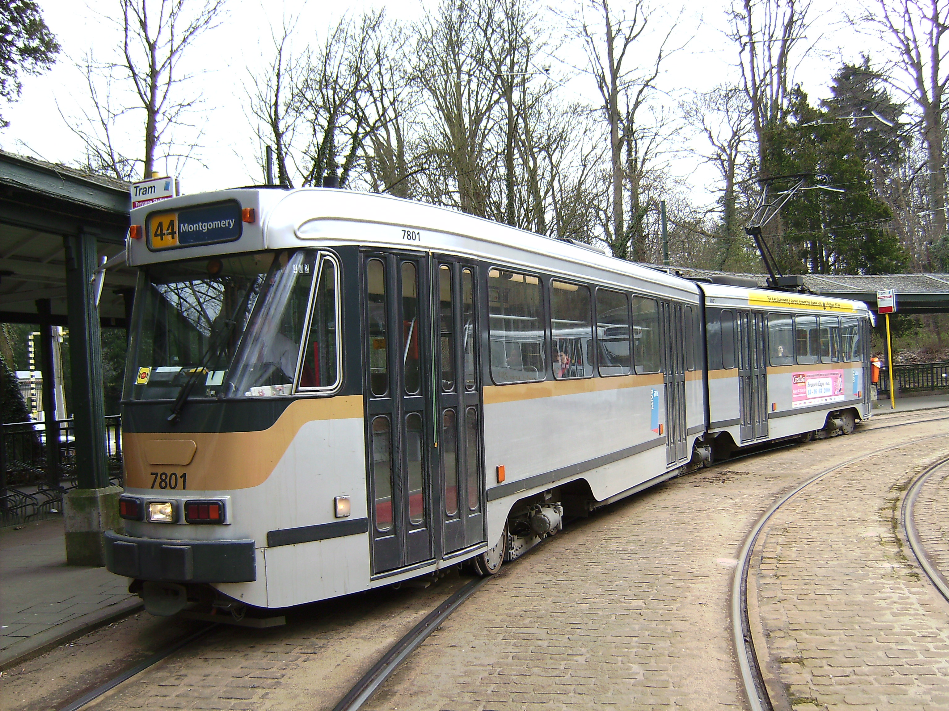 This picture was taken at the terminus of the Brussels tram line 44. This interucity connects Brusseles with the Flemish town Tervuren. It is one of the most beautifull tram lines of Brusseles. It runs along prestigious Tervurenlaan avenue (a lot of foreign embassies are located there) and through the forest, called Zoniënwoud/Fôret de Soignes (forest of Suns). The line terminus is near the Museum of Central Africa. This is not a coincidence, since the tram line was build in 1897, during the World Fair, to connect Brusseles with the Colonial Exhibition, wich was later transformed into museum. The tram belongs to 7700-7800 series, this articulated bidirectional cars were build for Brusseles in 1971-1972. They are based on American PCC cars. This tram is painted in the new livery of STIB/MIVB (Brussels public transport munitipal company)